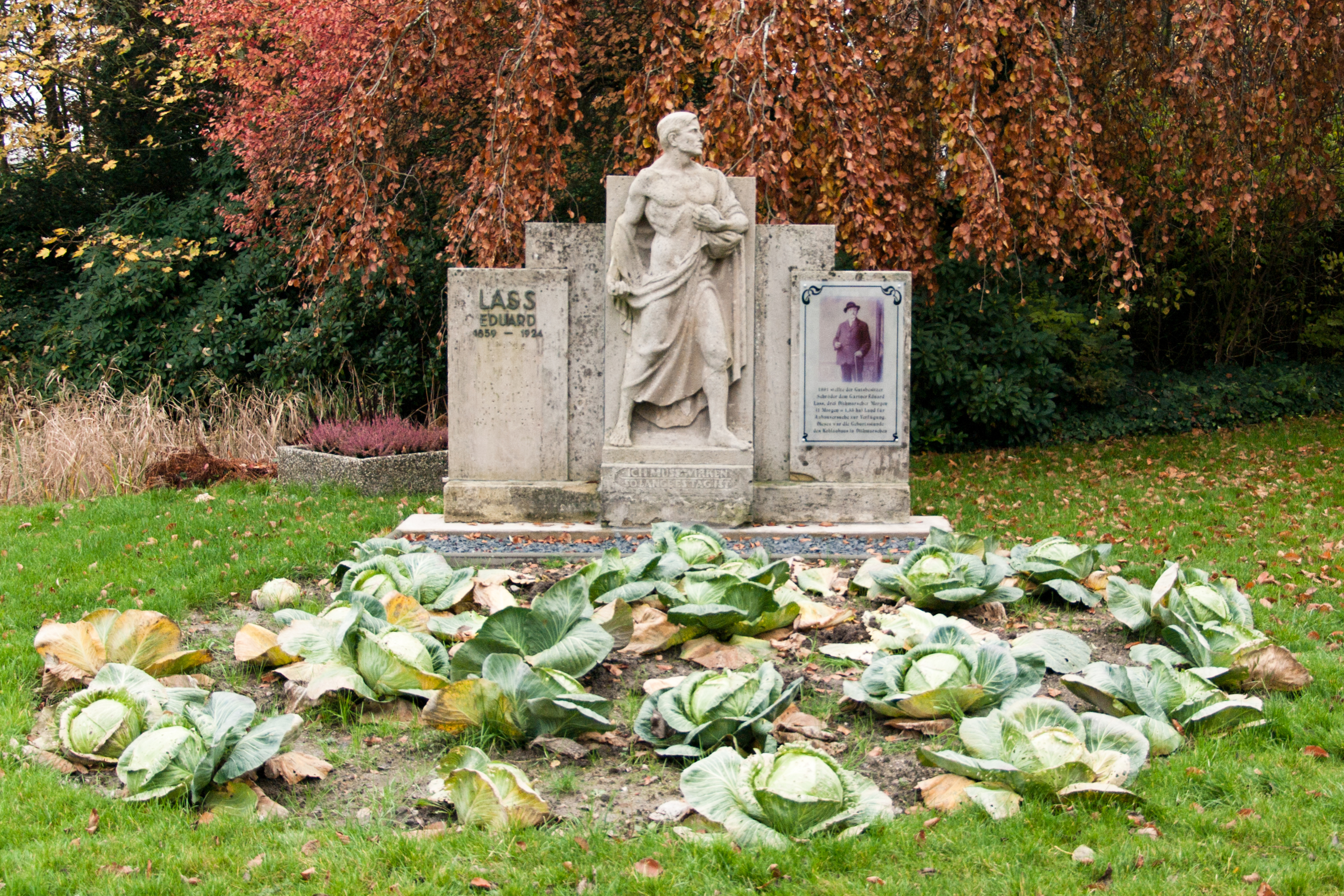 Monument for Eduard Lass in front of the Kohlosseum, Wesselburen.